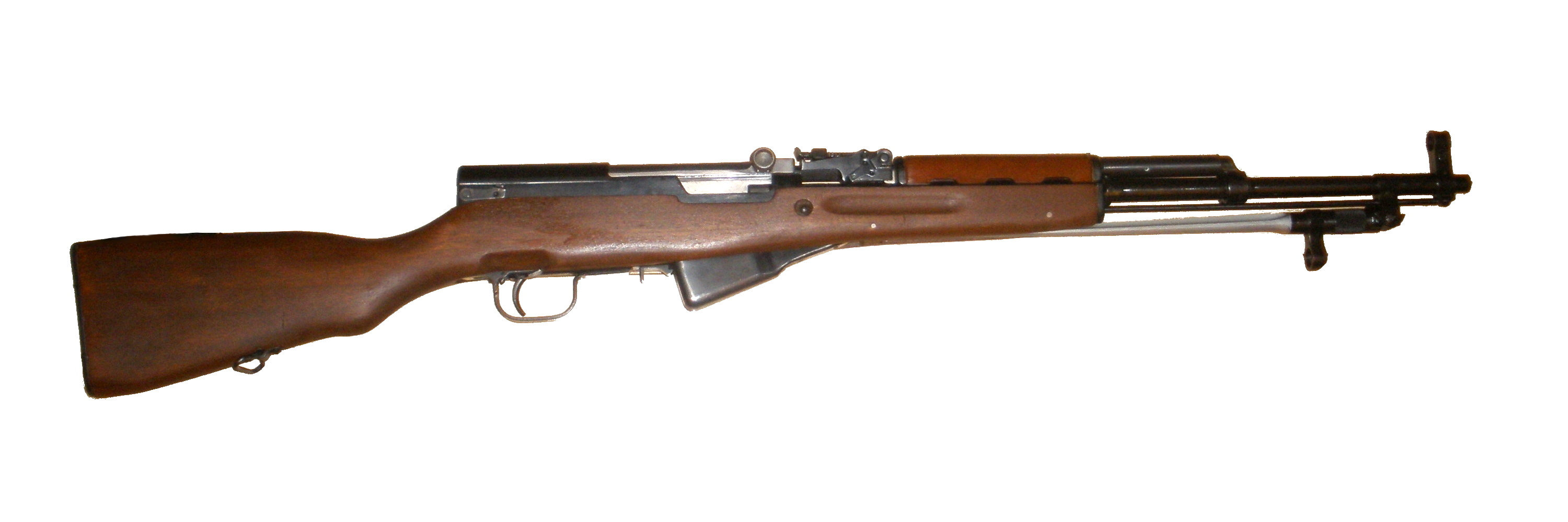 Simonov SKS-45, Russian self-loading rifle